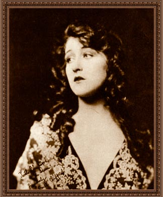 Publicity photo of Ruth Clifford from The Blue Book of the Screen by Ruth Wing, editor